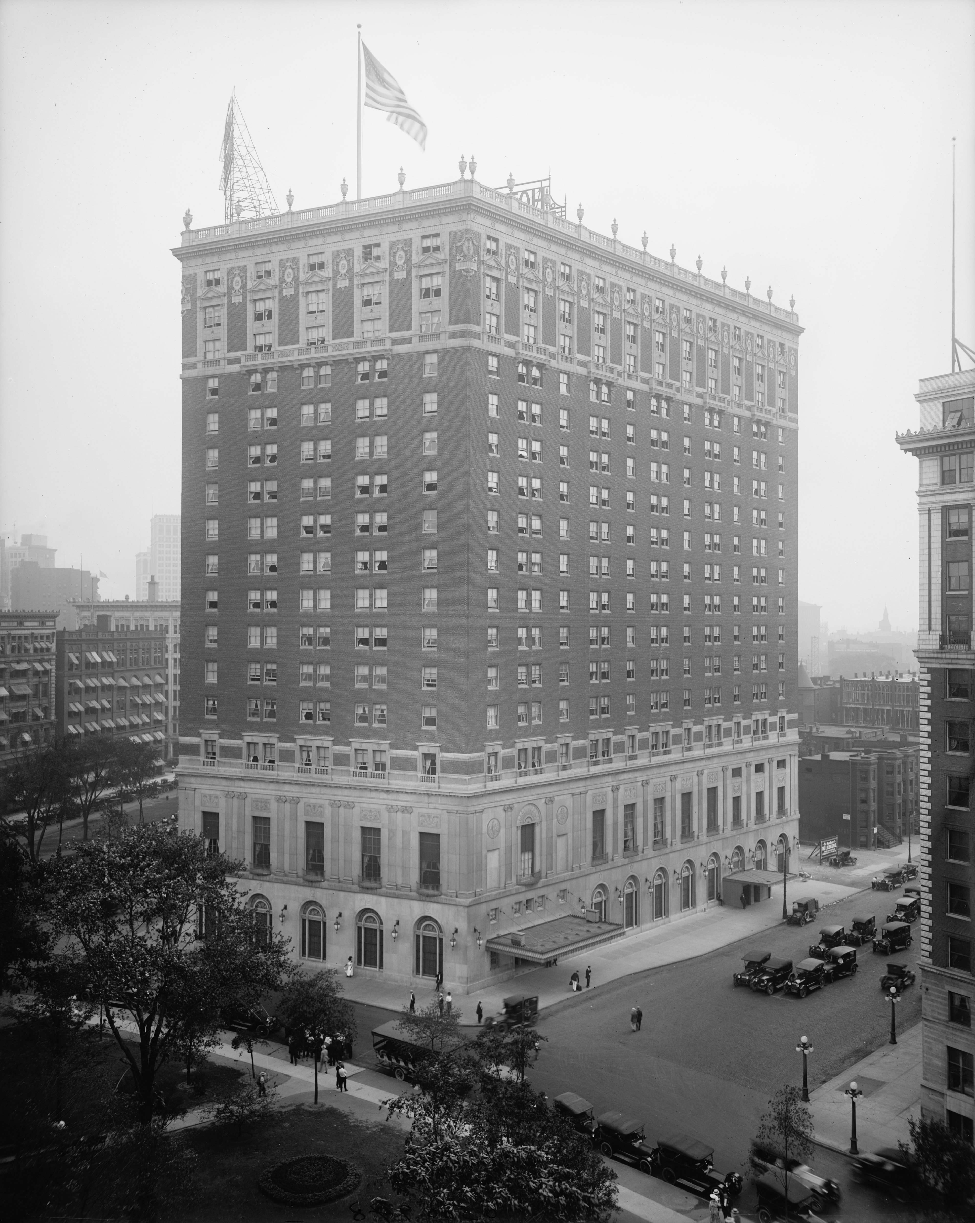 Detroit Statler Hotel — formerly across from Grand Circus Park in downtown Detroit, Michigan. Completed in 1915 — abandoned in 1975 — demolished in 2005. Former site is in the Grand Circus Park Historic District.